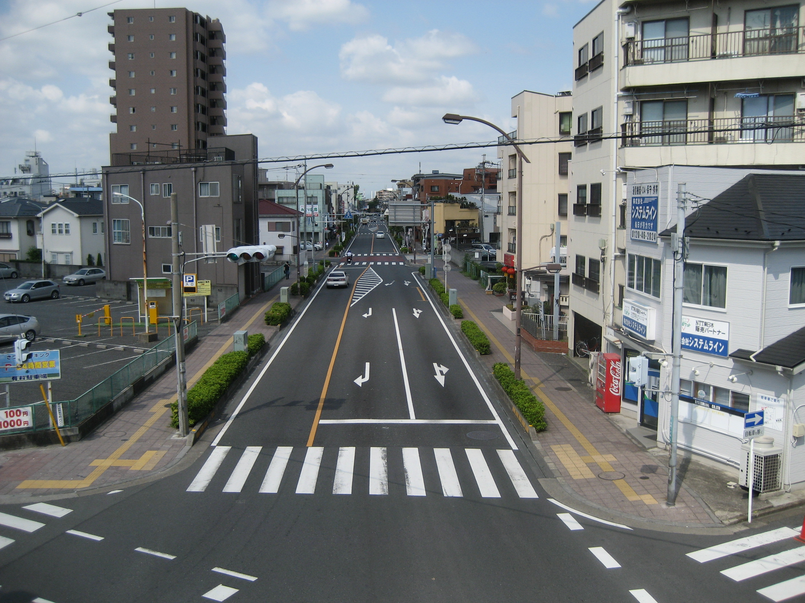 The Saitama Prefectural Road Route 117 at the Warabi Overbridge West Intersection